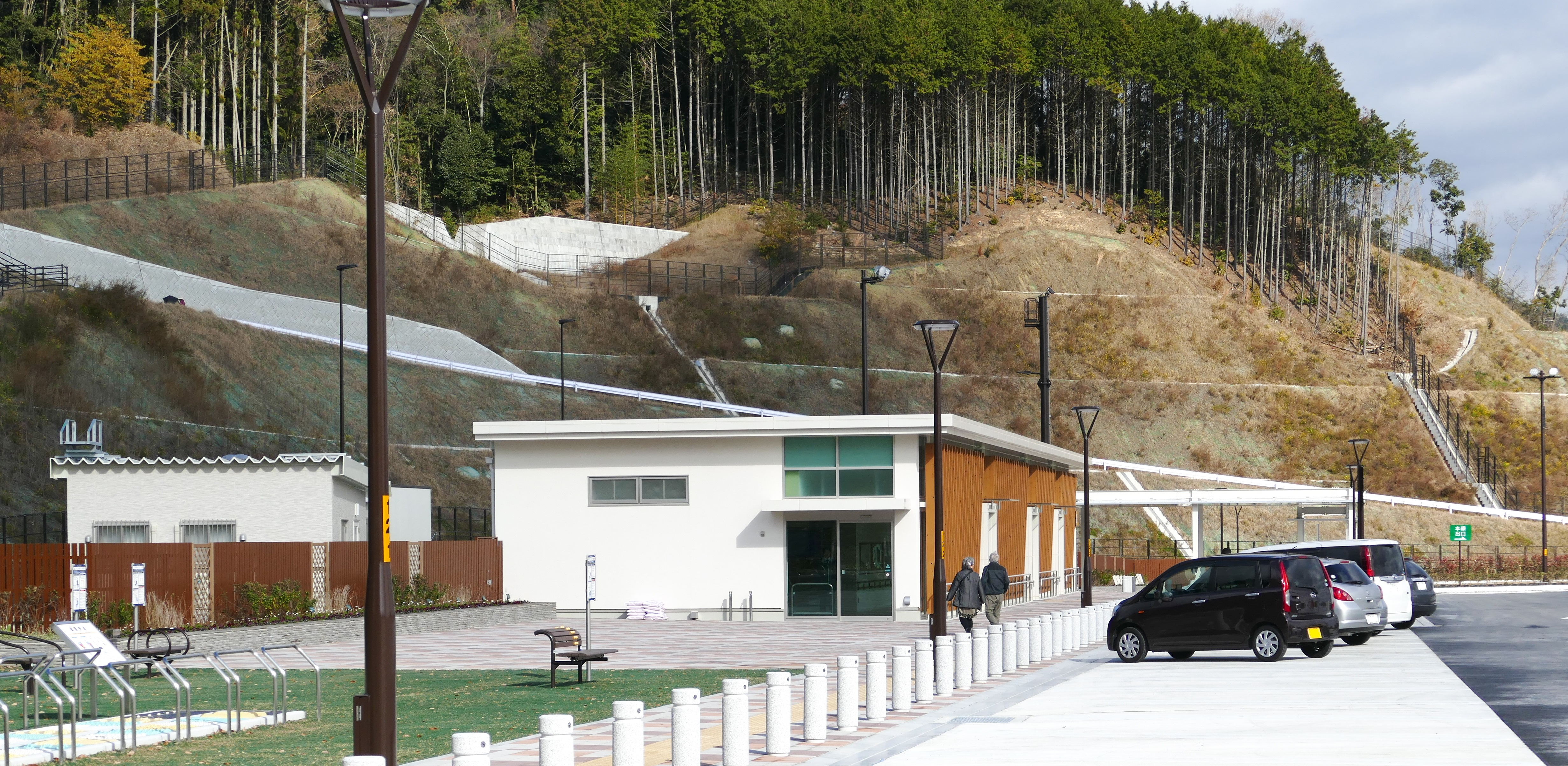 Ibaraki-Sendaiji Inter Change for Nagoya ,Osaka prefecture,Japan